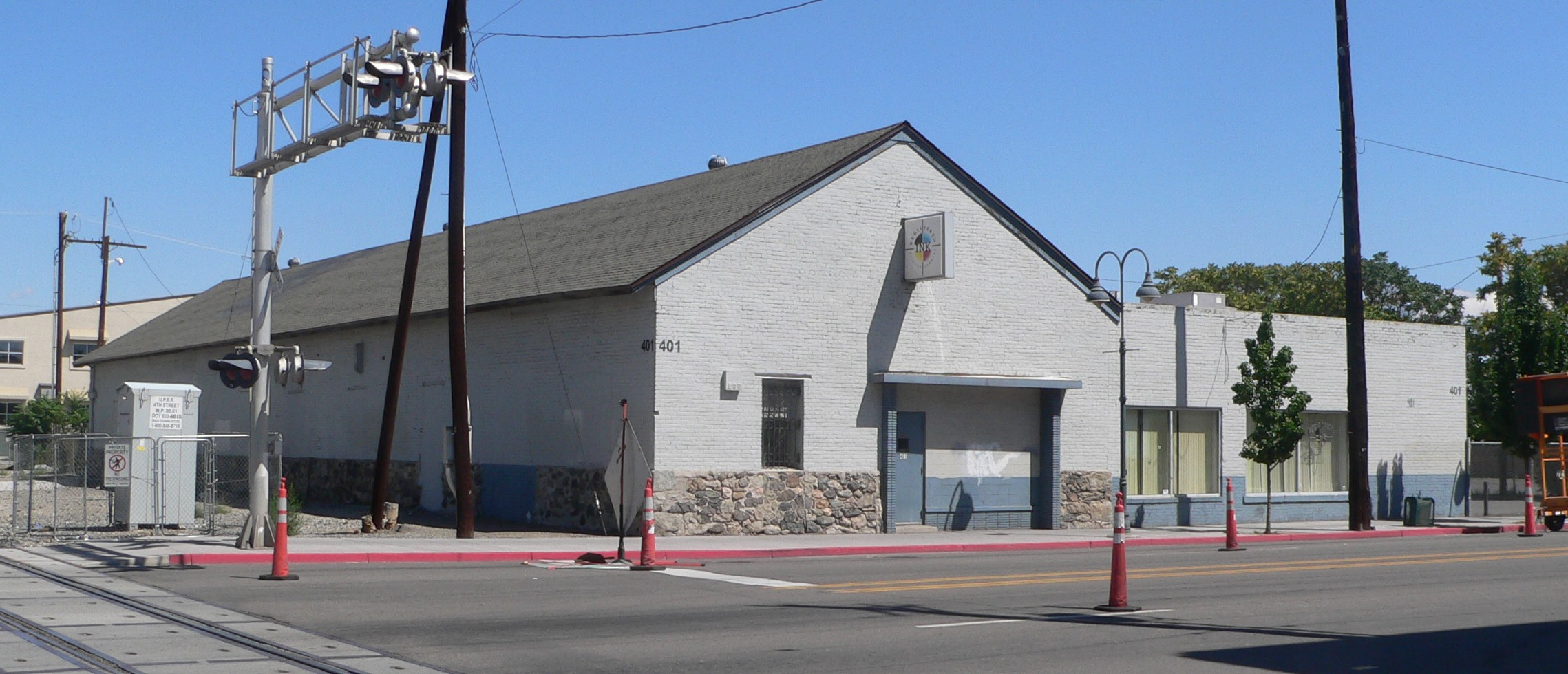 Nevada-California-Oregon Railroad locomotive house and machine shop, in 2014 occupied by Registered Ink Printing Co., at 401 E. 4th Street in Reno, Nevada; seen from the south-southwest.